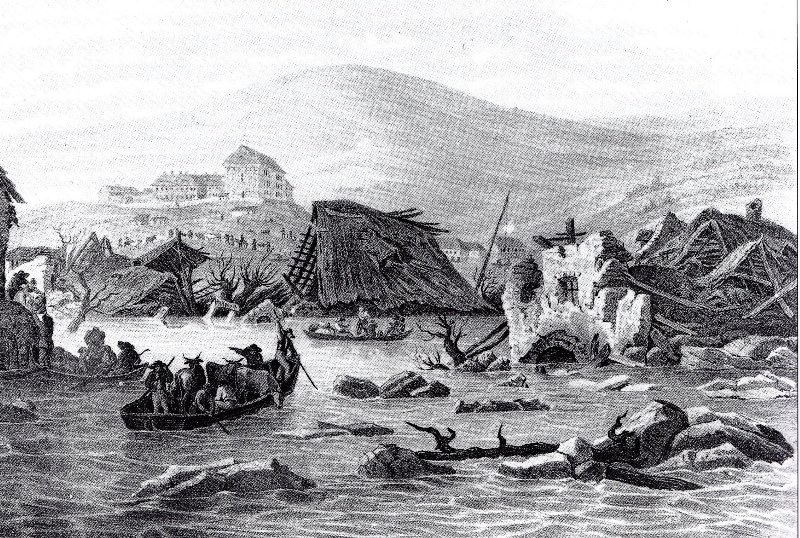 The city of Óbuda during the flood of 1838. Drawing by Klette, lithograph by Georg Scheth